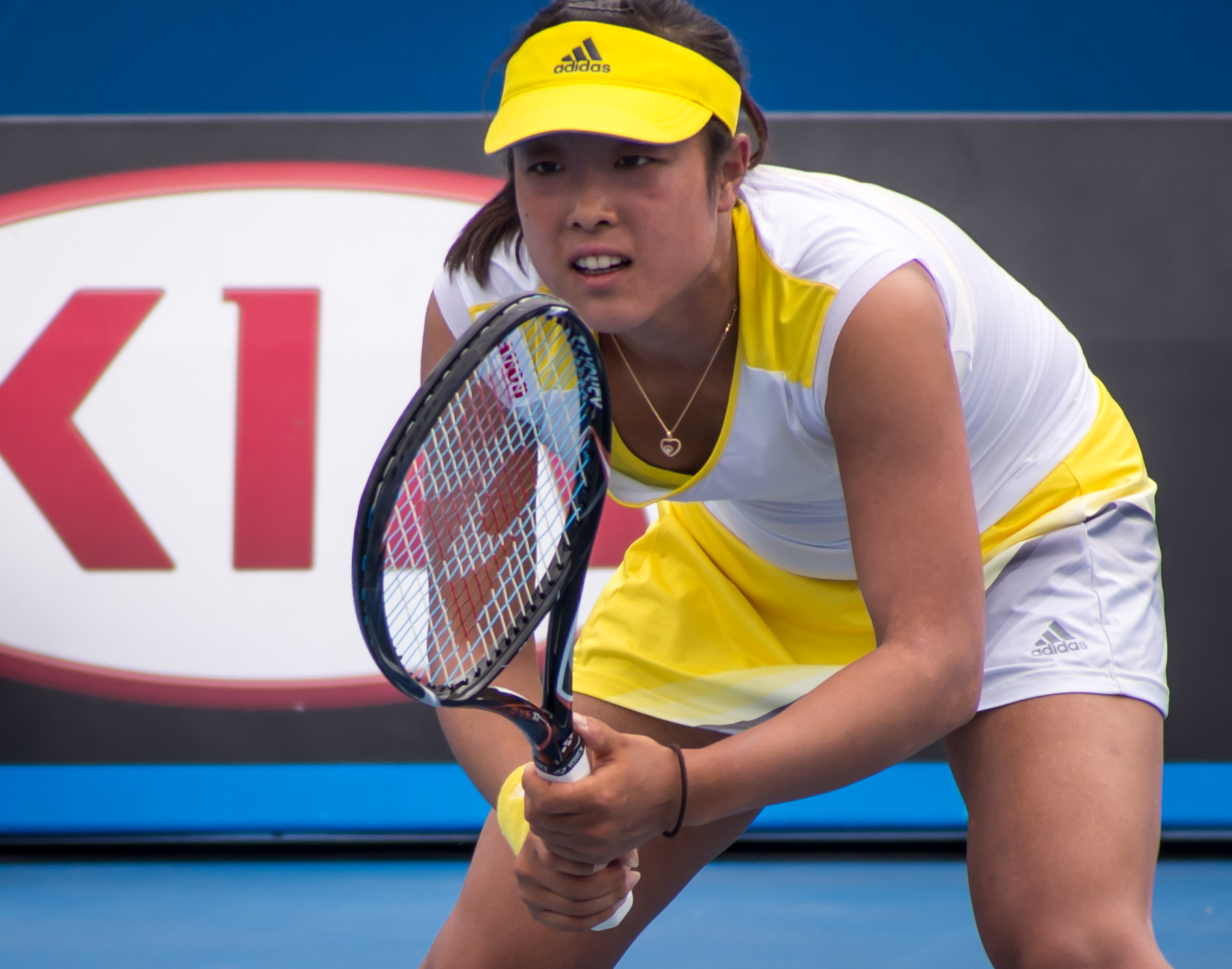 Ayumi Morita during her 2nd round straight-sets win over Annika Beck at the 2013 Australian Open. This image was taken at time index 0:58:20 in the match video